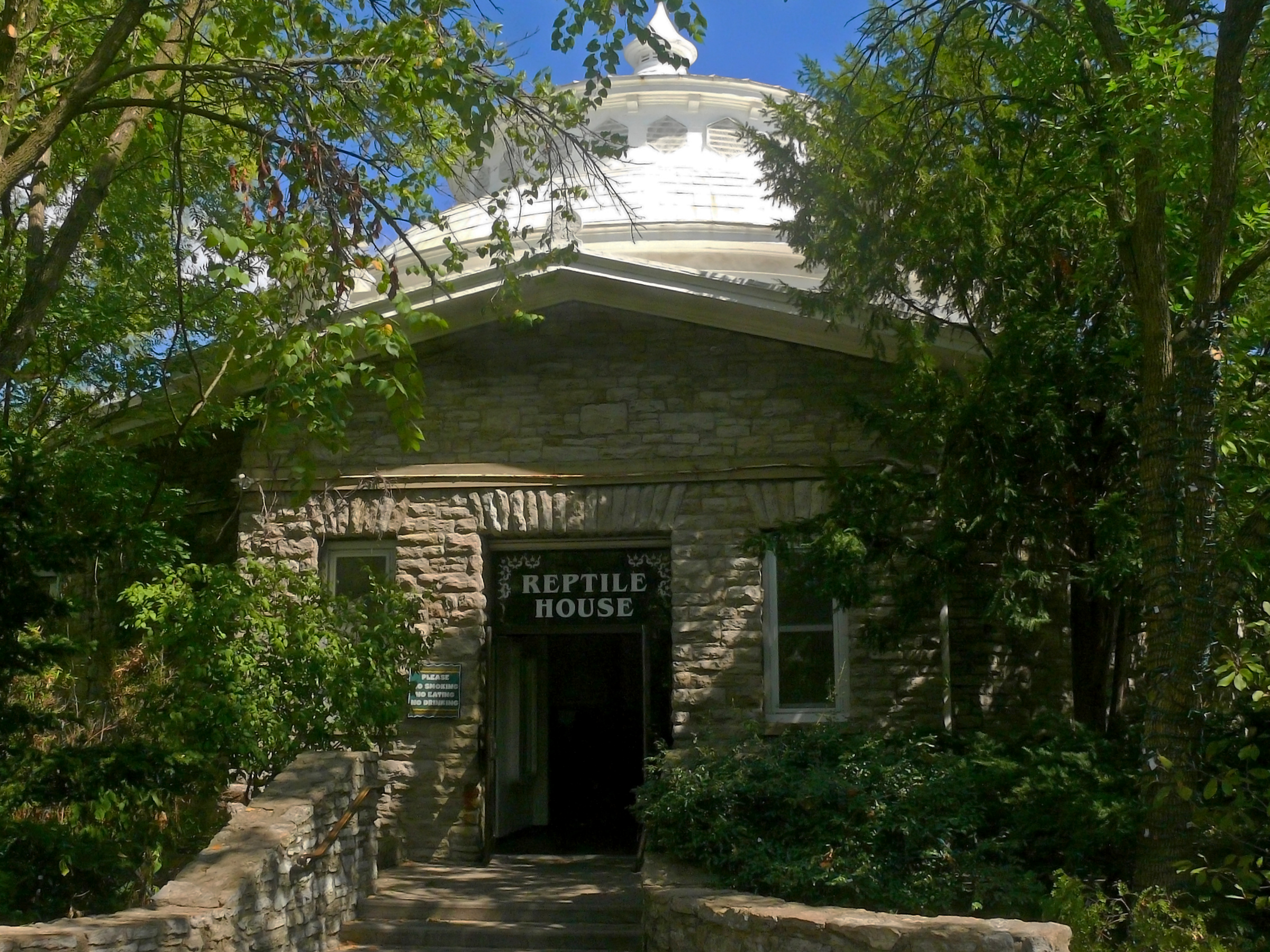 Reptile House at the Cincinnati Zoo Photo by Greg Hume